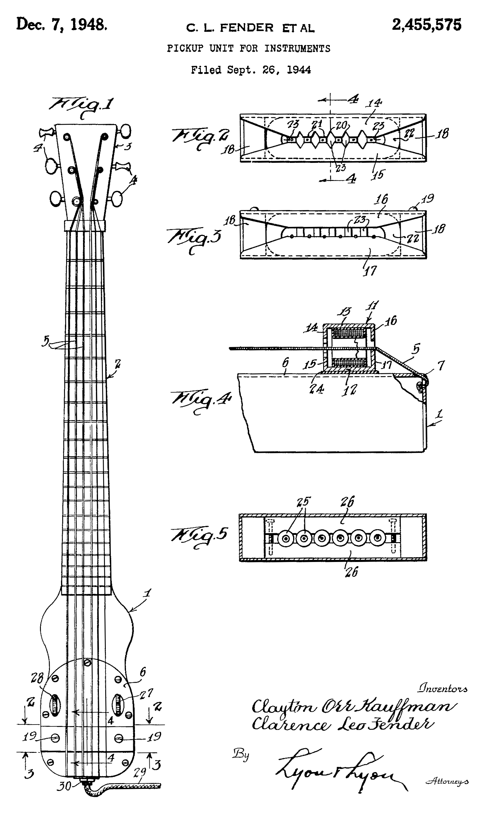 Diagrams of Leo Fender's lap steel guitar design from 1944 patent application, emphasizing the design of the guitar pickup.